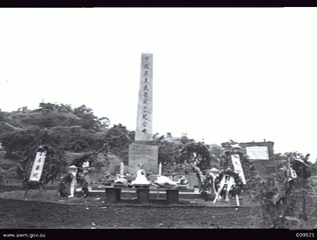 RABAUL, NEW BRITAIN, 1946-03-16. OF THE 653 CHINESE WHO DIED WHILST CAPTIVES OF THE JAPANESE, 259 WERE RE-INTERRED IN A CHINESE CEMETERY AT RABAUL. THE NEAT GROUNDS, ROWS OF MARKED GRAVES AND AN INSCRIBED MEMORIAL MONUMENT WERE DEDICATED IN A SPECIAL CEREMONY ATTENDED BY REPRESENTATIVES OF THE AUSTRALIAN ARMY, CHINESE ARMY AND CHINESE COMMUNITY. SHOWN, THE MONUMENT AND SHRINE SHOWING LIGHTED CANDLES AND OFFERINGS OF FOOD TO CHINESE WAR DEAD.